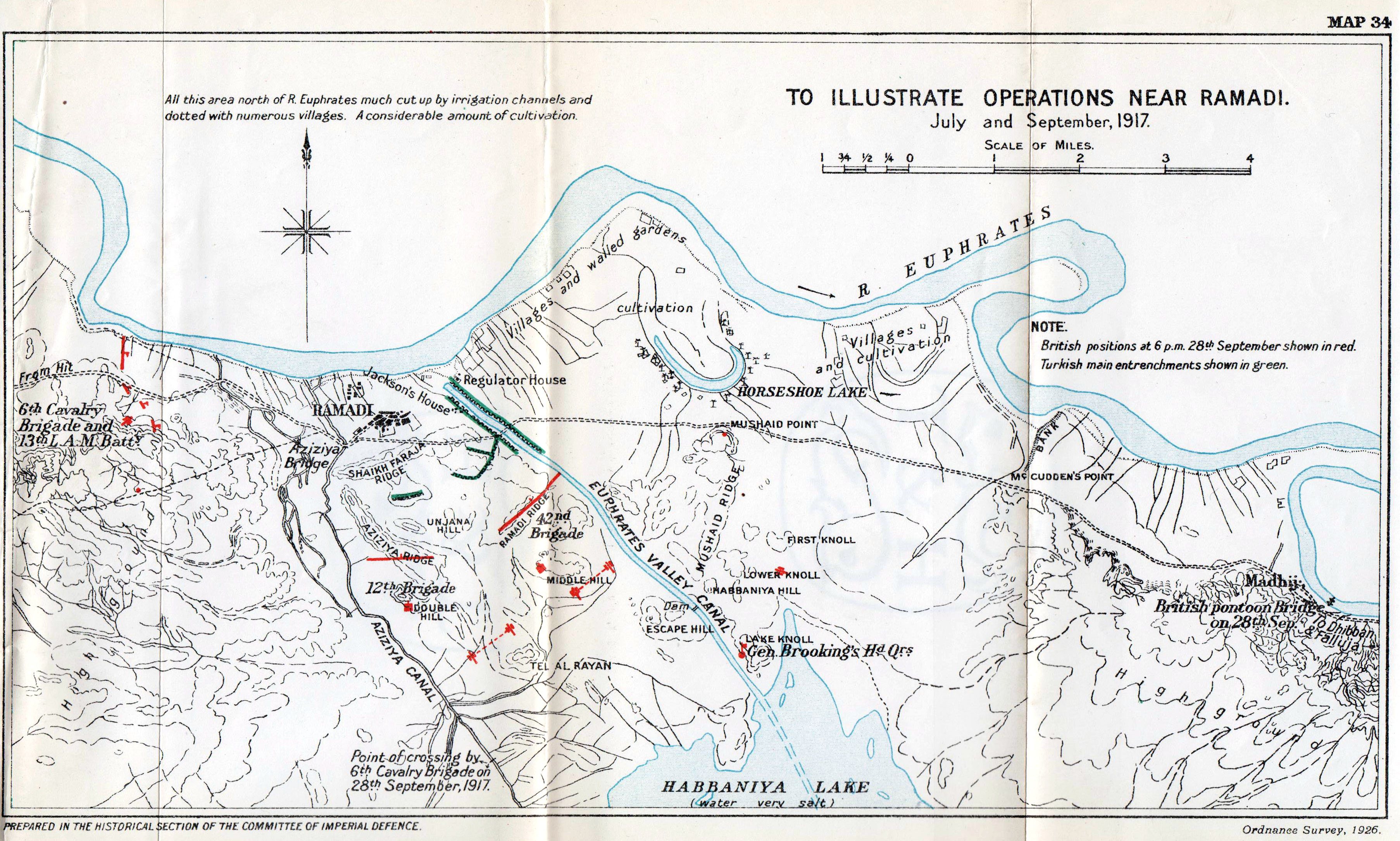 Map of British operations in Ramadi, July and September 1917